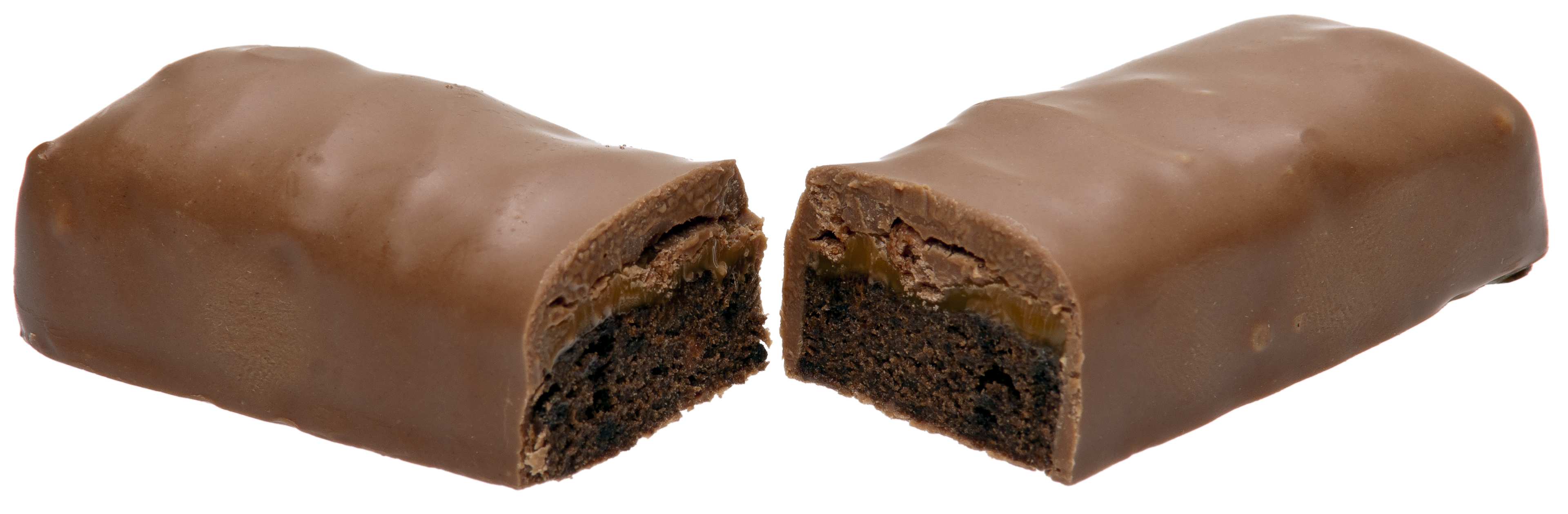 An Australian Milo candy bar that has been split in half.